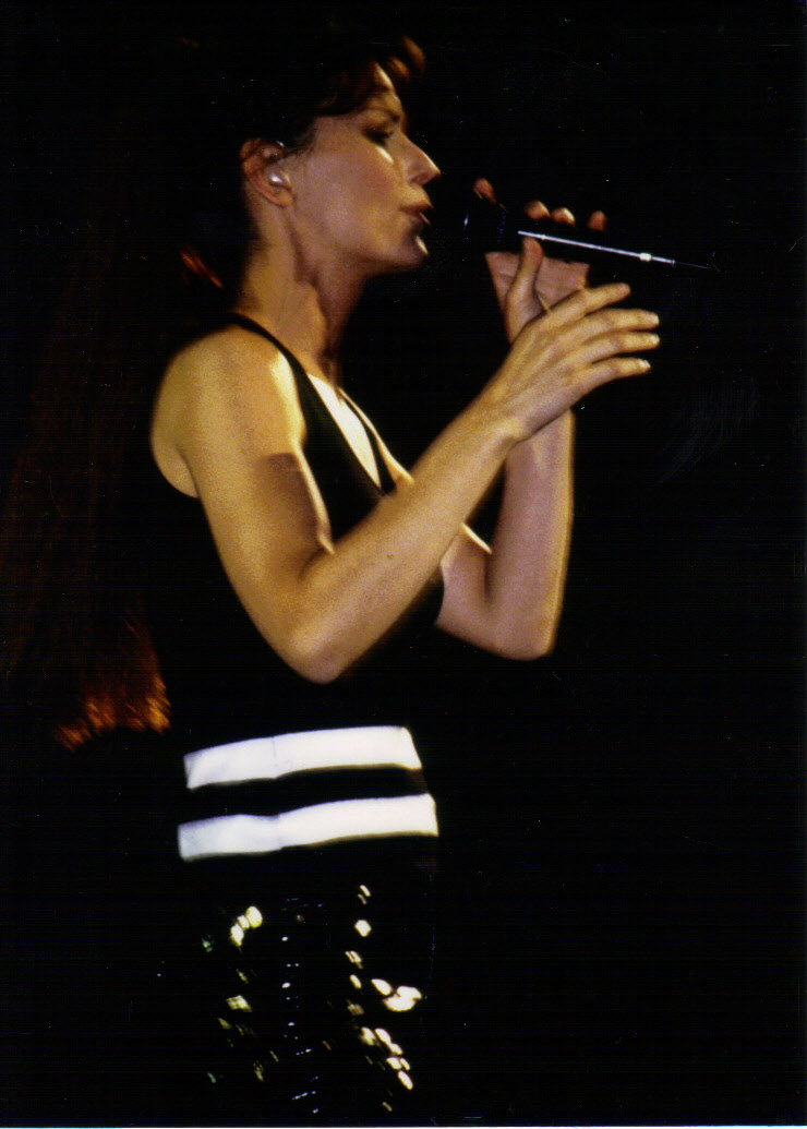 Country pop singer Shania Twain performing during her Come on Over Tour in Boston, Massachusetts in 1999.